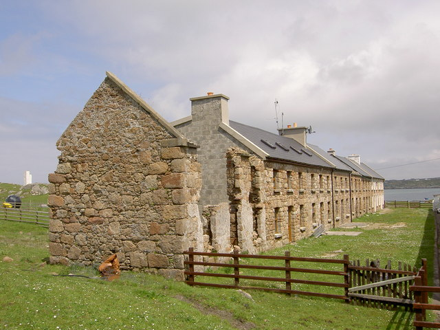 Tarent Street, Rutland Island built 1789 Houses built as part of the, now derelict, Conyngham fishing complex on Rutland Island 1785- 1789. The fish departed and the complex failed in the early 1800s